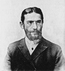 Siegbert Tarrasch, German Chess player